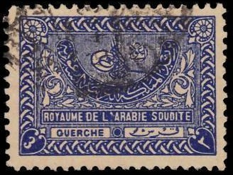 A postage stamp of the Kingdom of Saudi Arabia, 1938, 3g, Scott #166. Tughra of King Abdul Aziz.